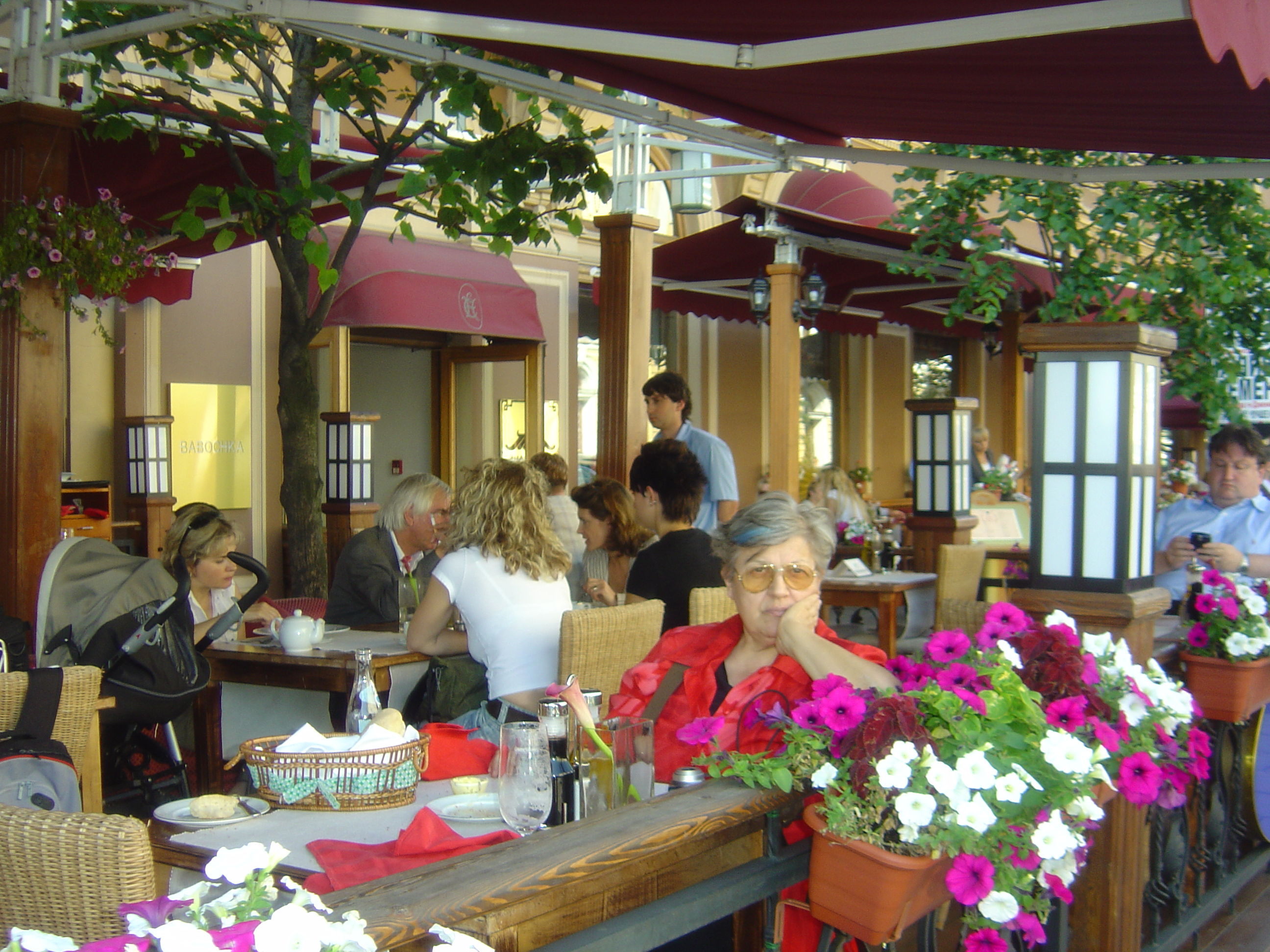 Grand Hotel Europe - St. Petersburg, Cafe-Restaurant at the open-air terrace, July 2007